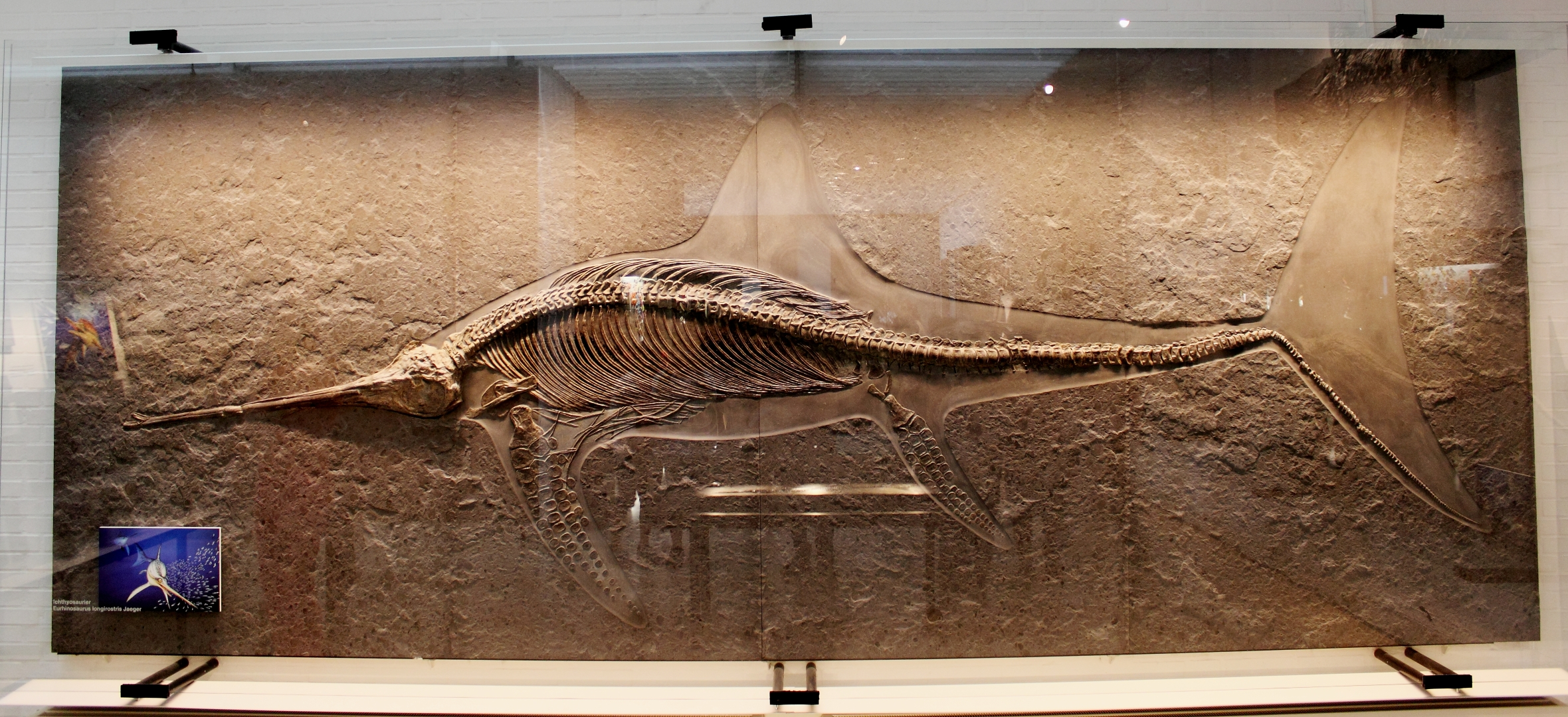 Eurhinosaurus longirostris on display in the Urweltmuseum Hauff, Holzmaden, Germany